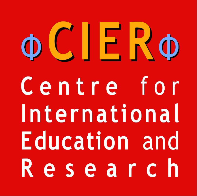 Logo for the Centre for International Education and Research (CIER)